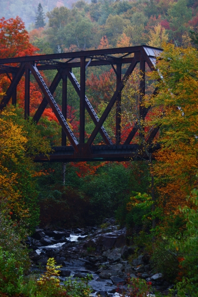 Trestle in Island Pond